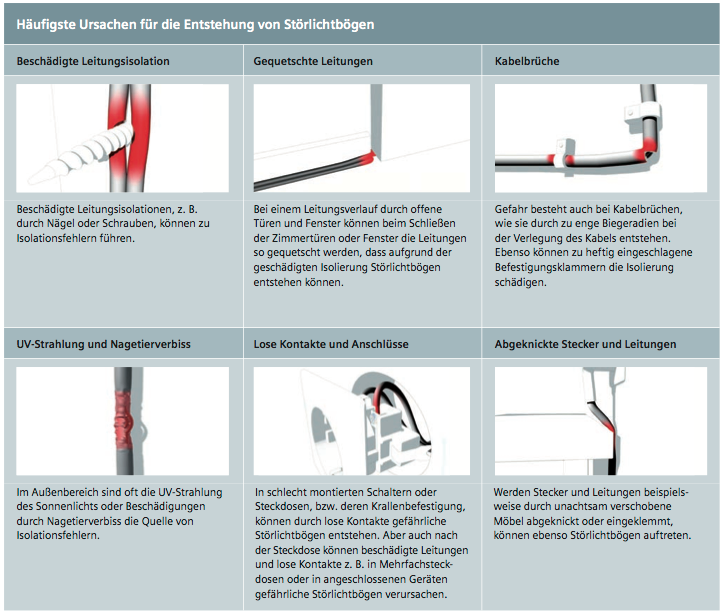 Reasons for Arc Faults in a Low Voltage Grid